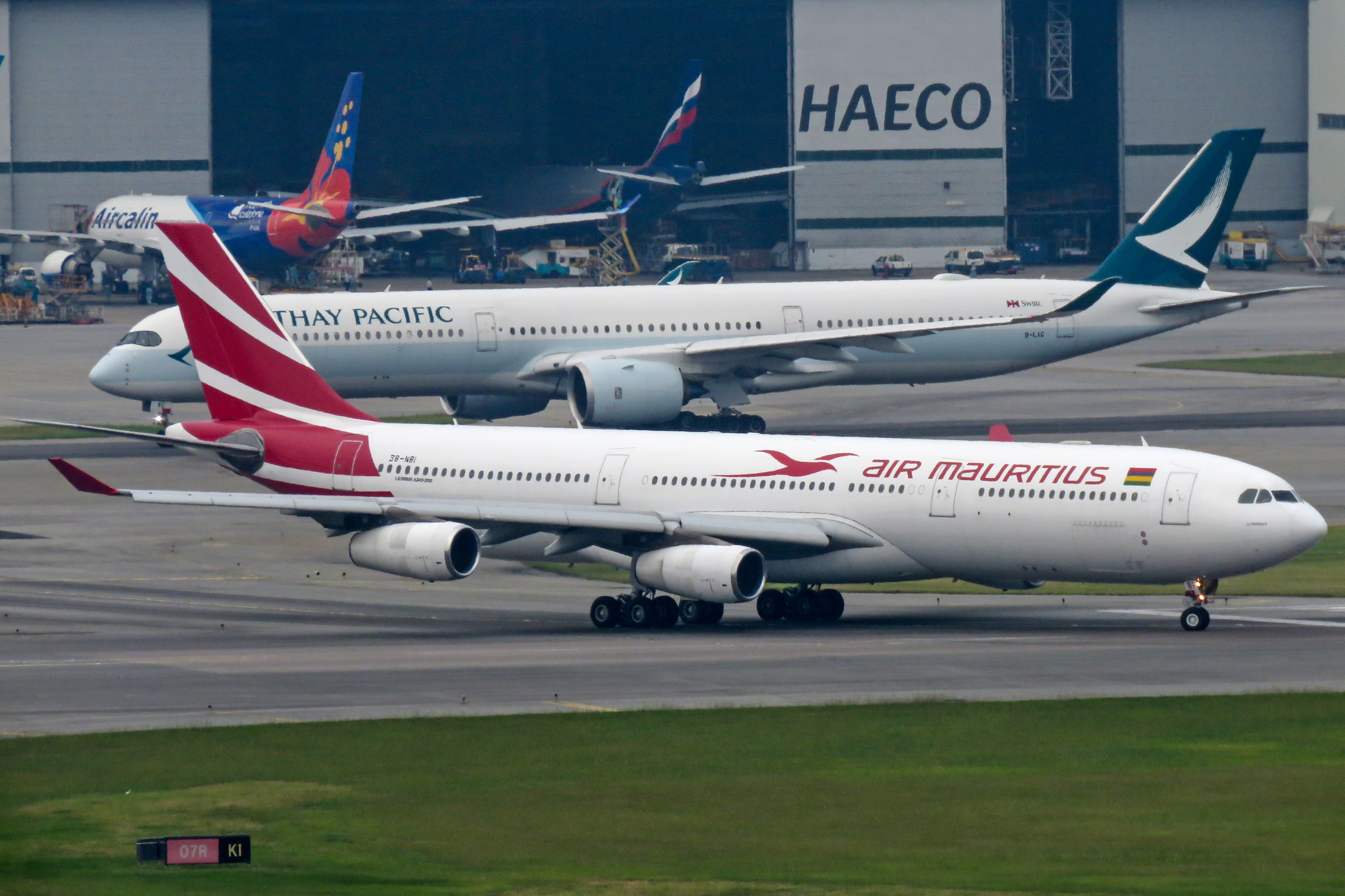 Air Mauritius 641 to Port Louis.